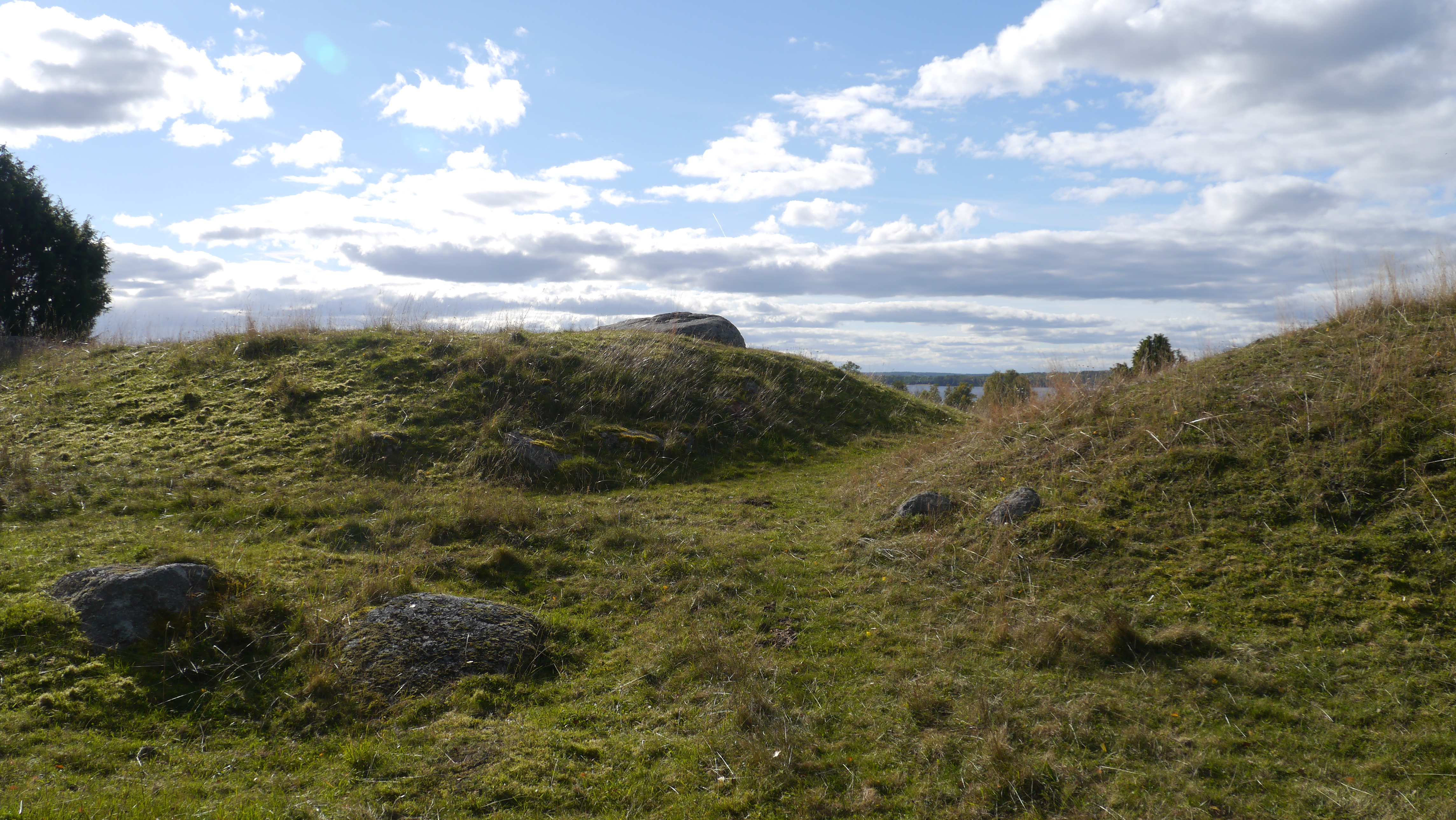 One of the "gates" in the ruins of the town rampart of Birka, as seen from "Hemlandet"